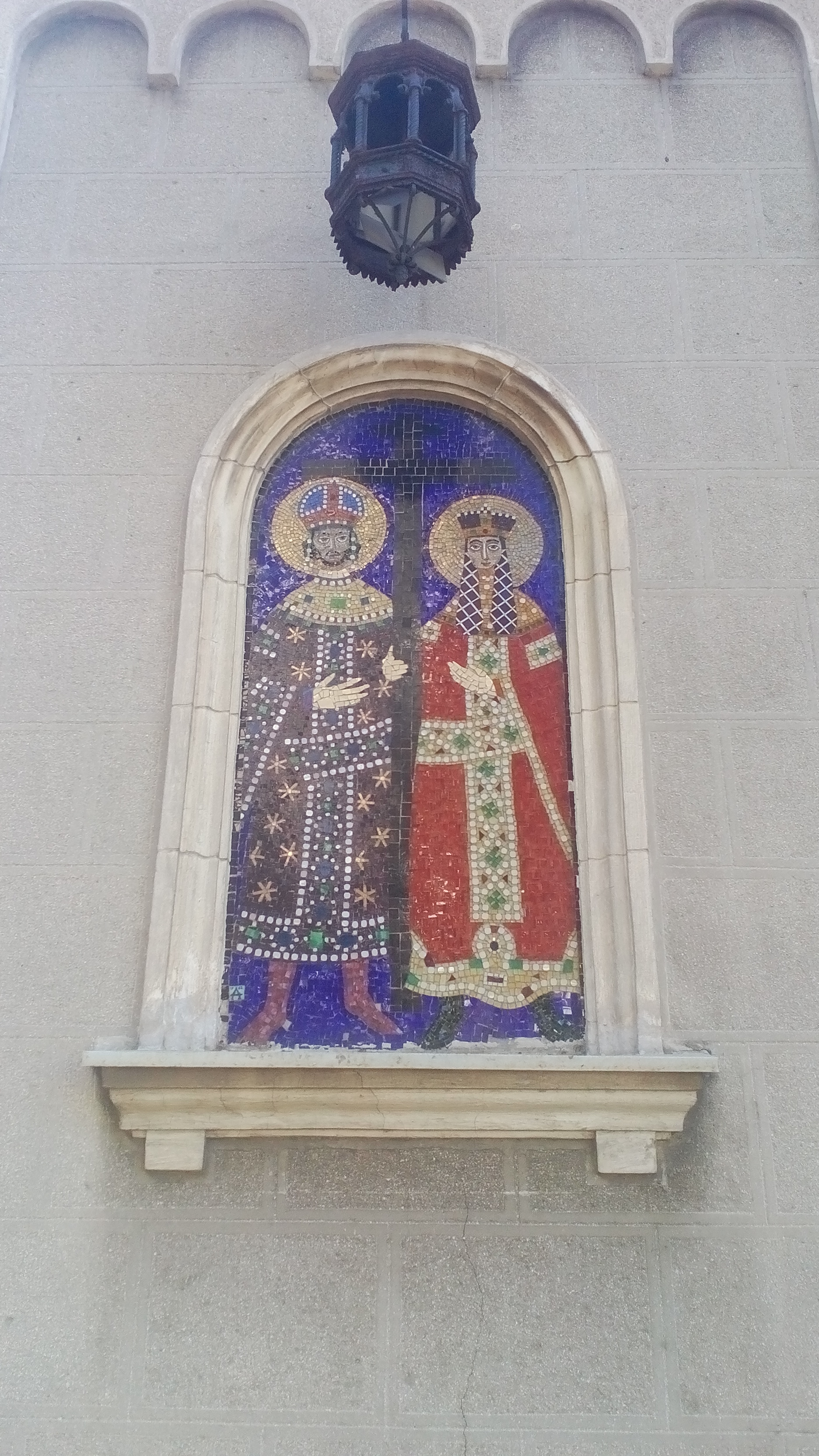 Church of St. Constantine and Helena(1).jpg